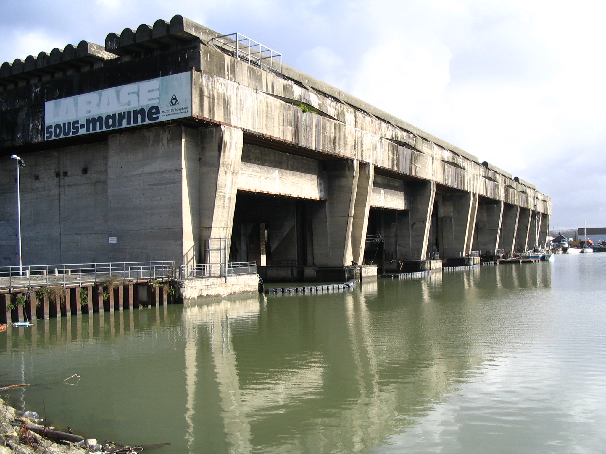 Former Uboat bunker of the German Kriegsmarine in Bordeaux, France, built in 1942.